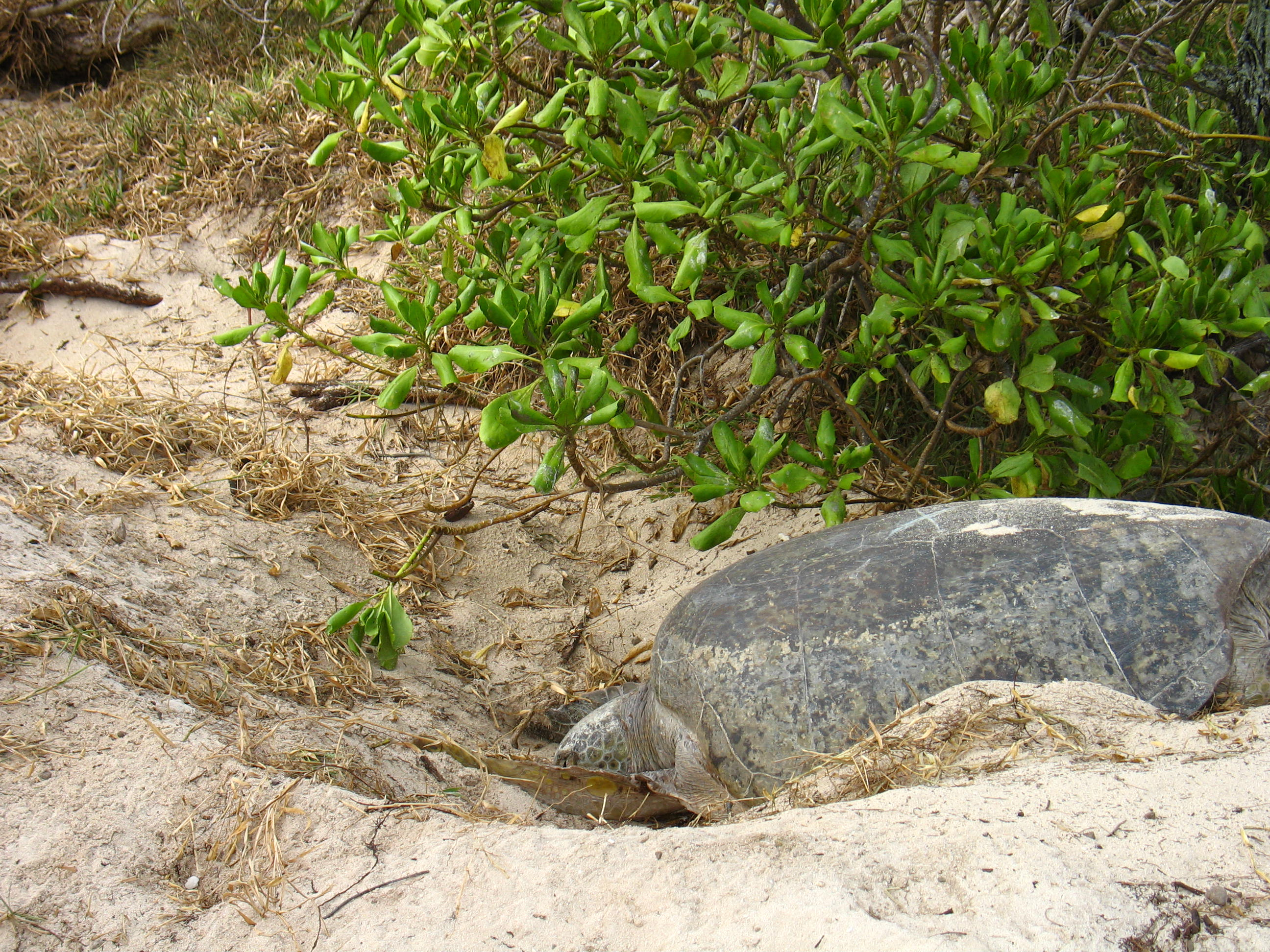 Loggerhead Turtle (Caretta caretta) attempting to dig a hole for egg laying on Heron Island.